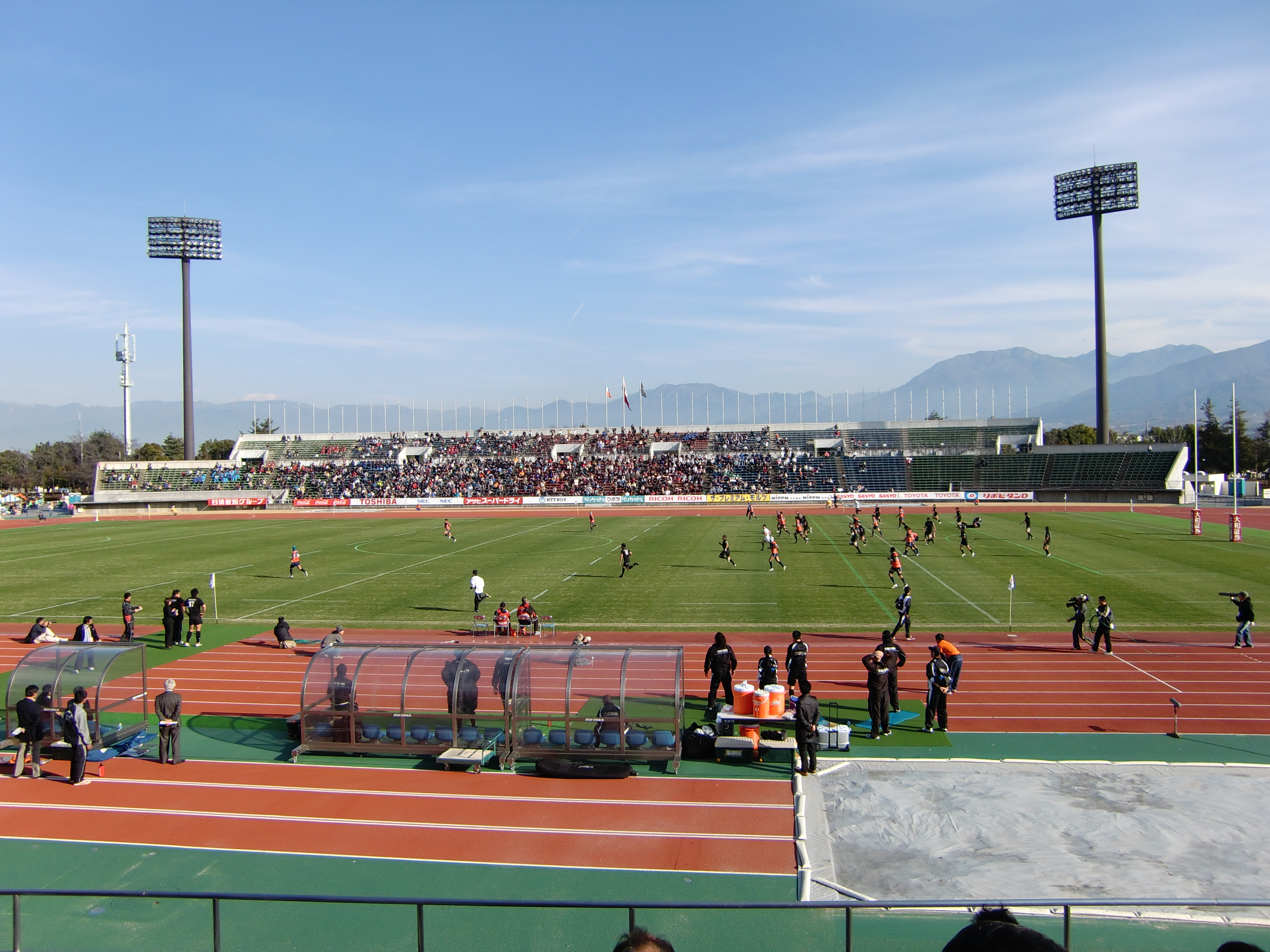 Kose Sportspark Stadium